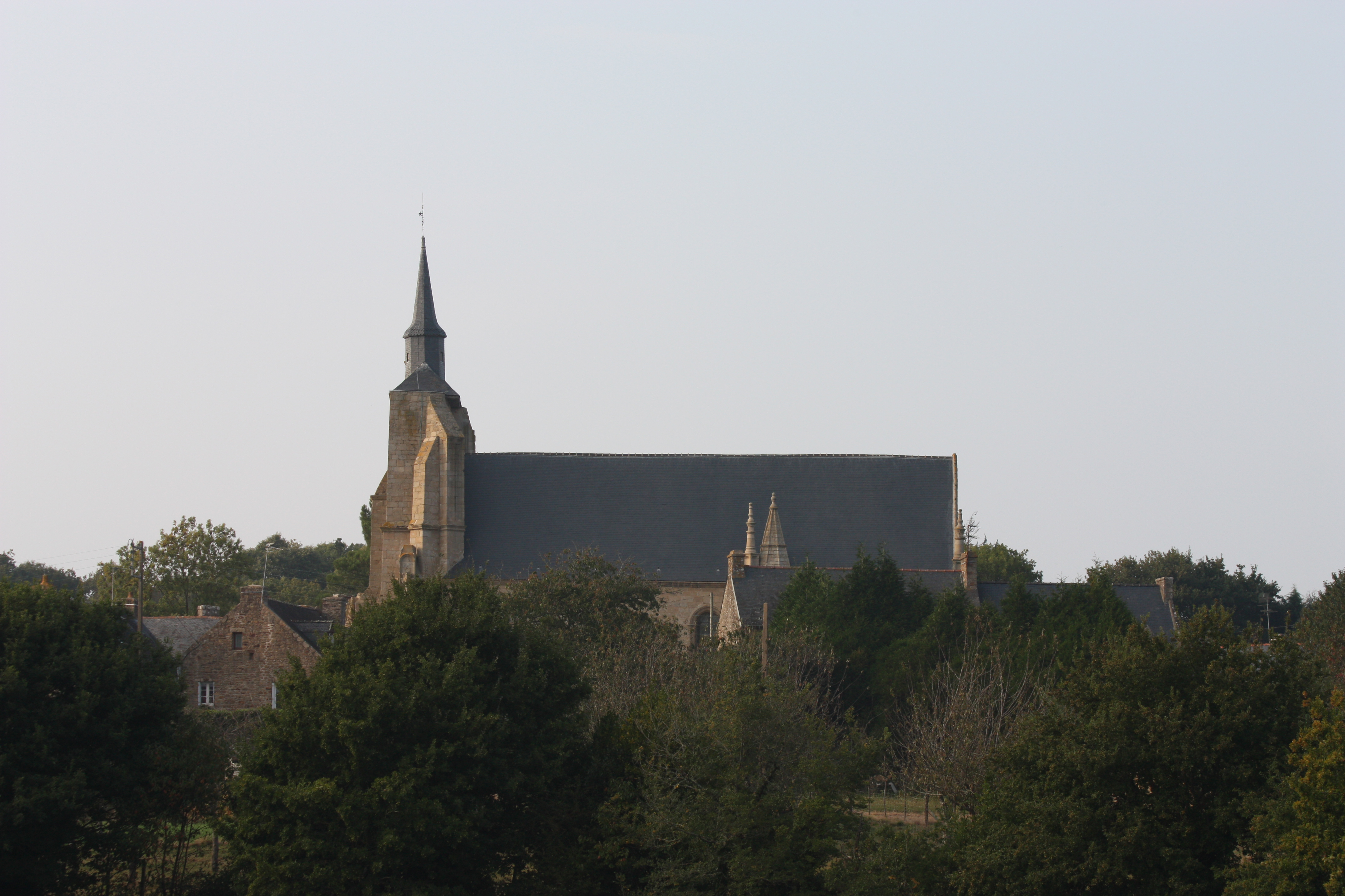 The chapel Sainte-Avoye in Pluneret.